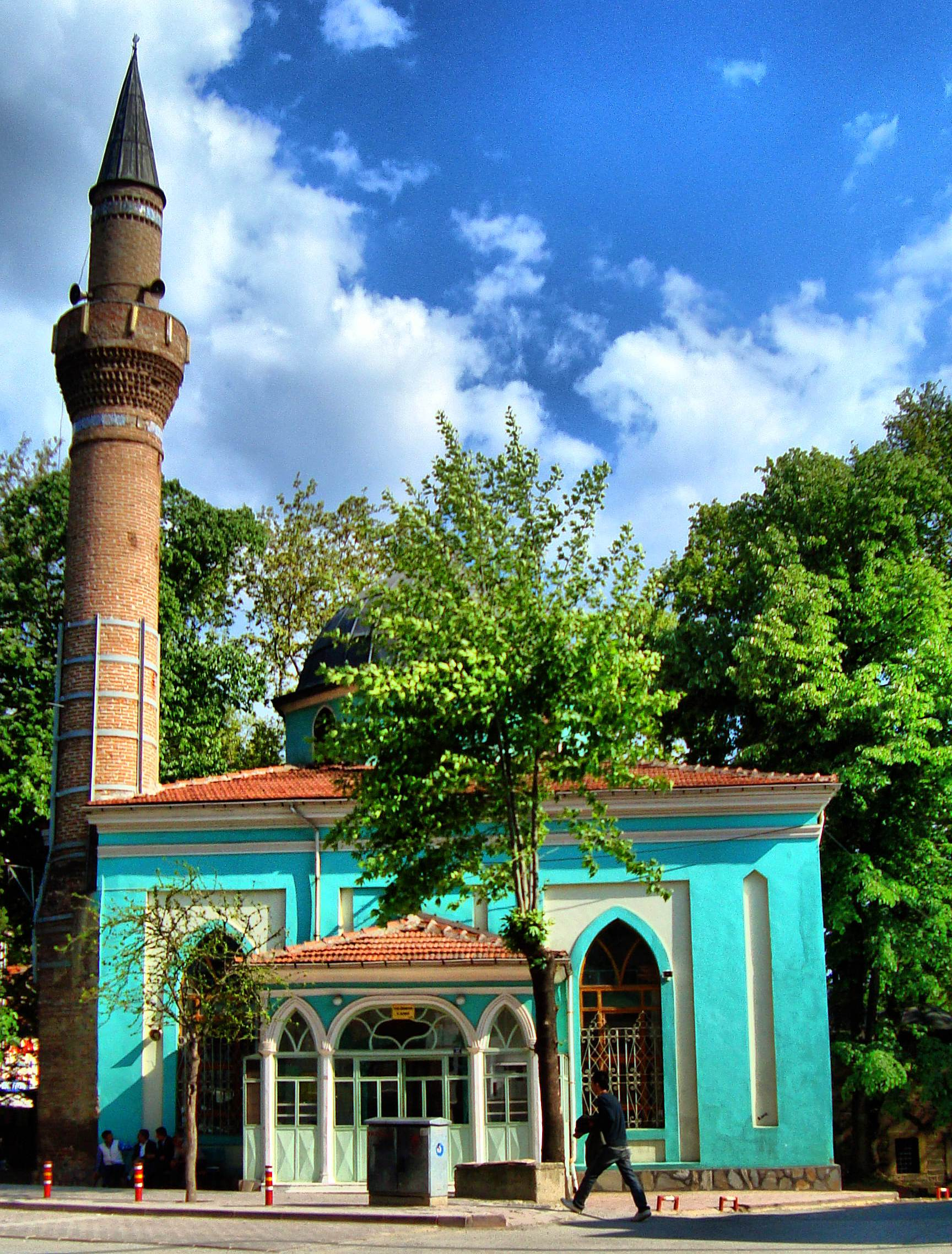 Yıldırım Mosque in İnegöl, Turkey